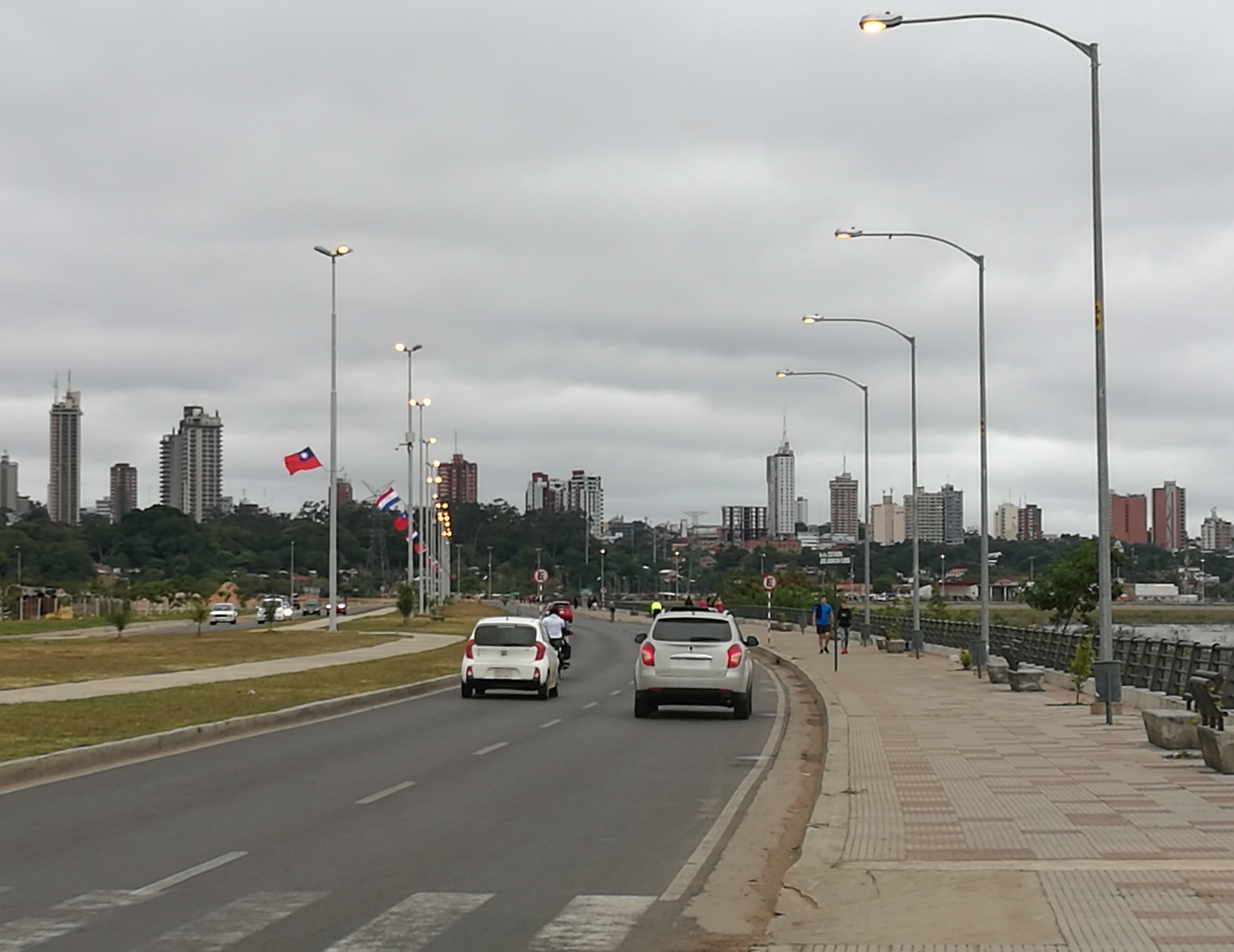 Costanera Avenue, in Asunción, Paraguay